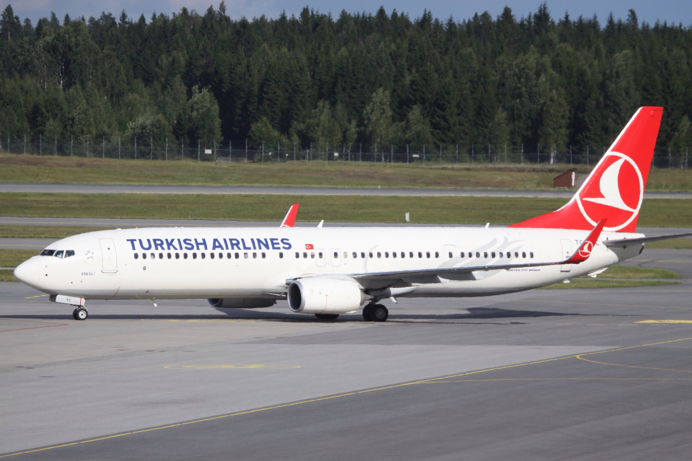 At Oslo Gardermoen